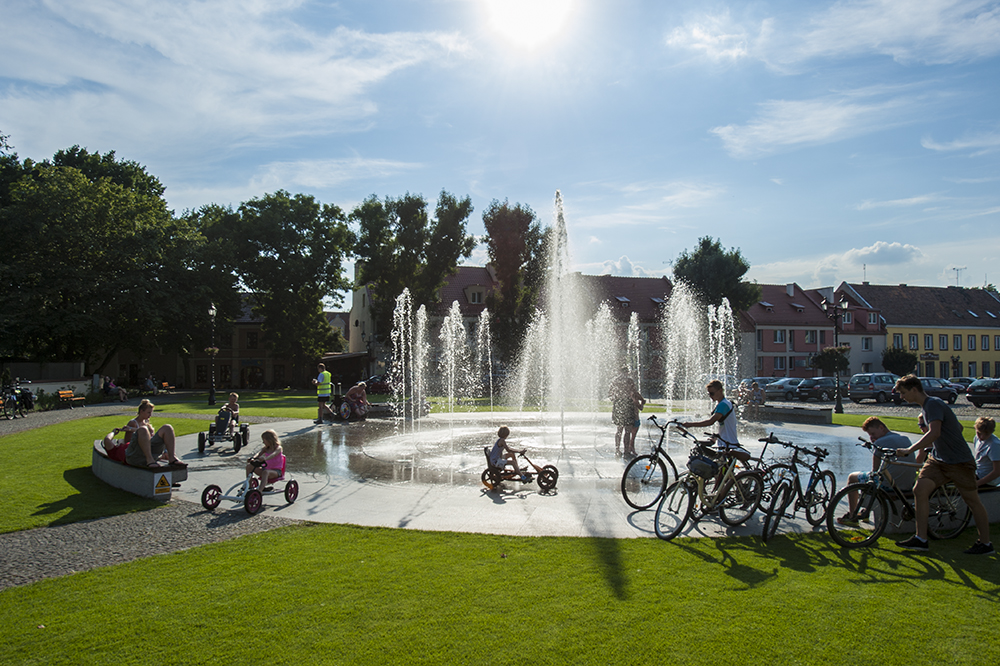 The fountain on the main square of Pułtusk, a historical town in Mazovia district of central Poland.